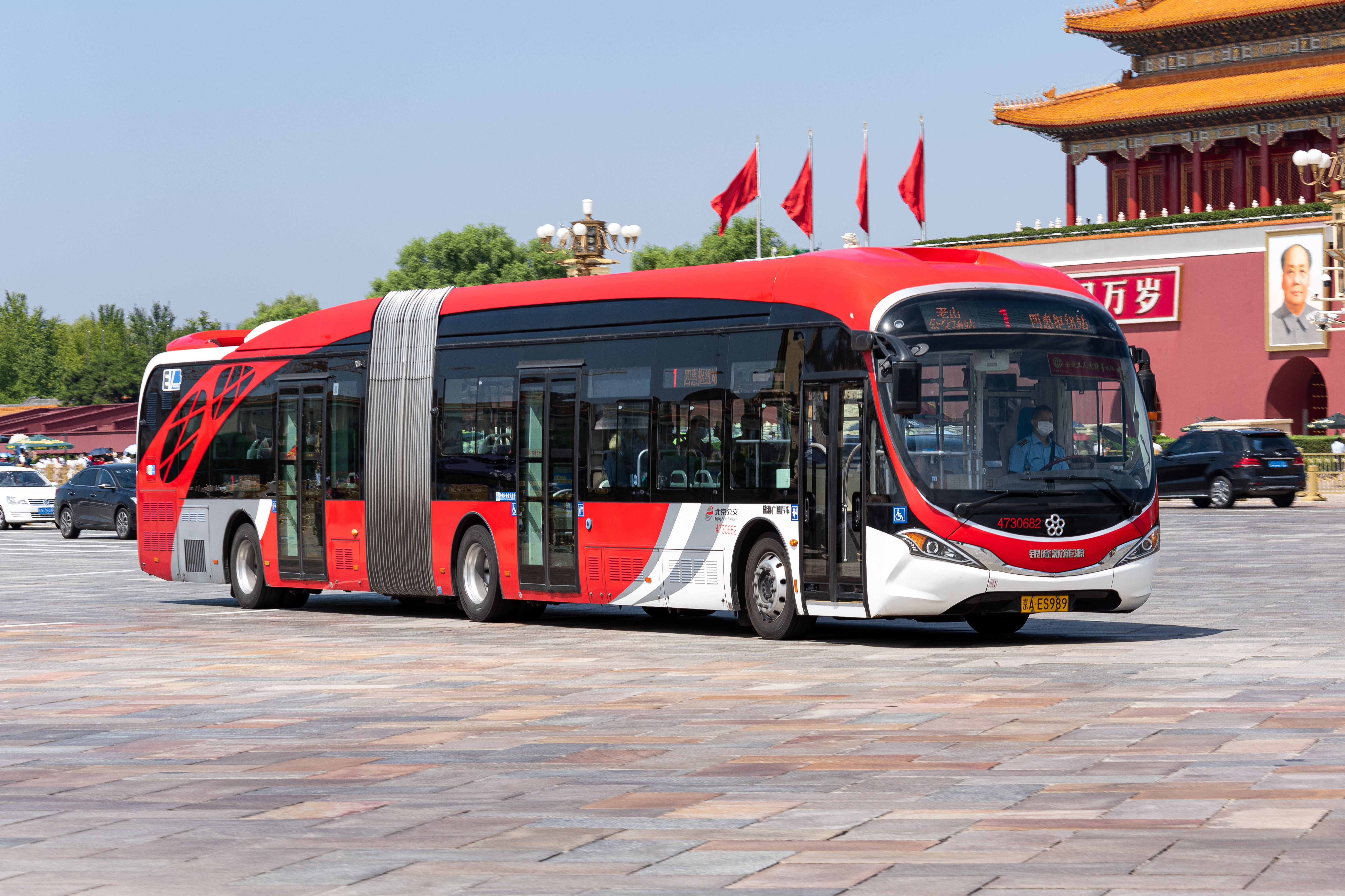 Famous fellow, but the crew...